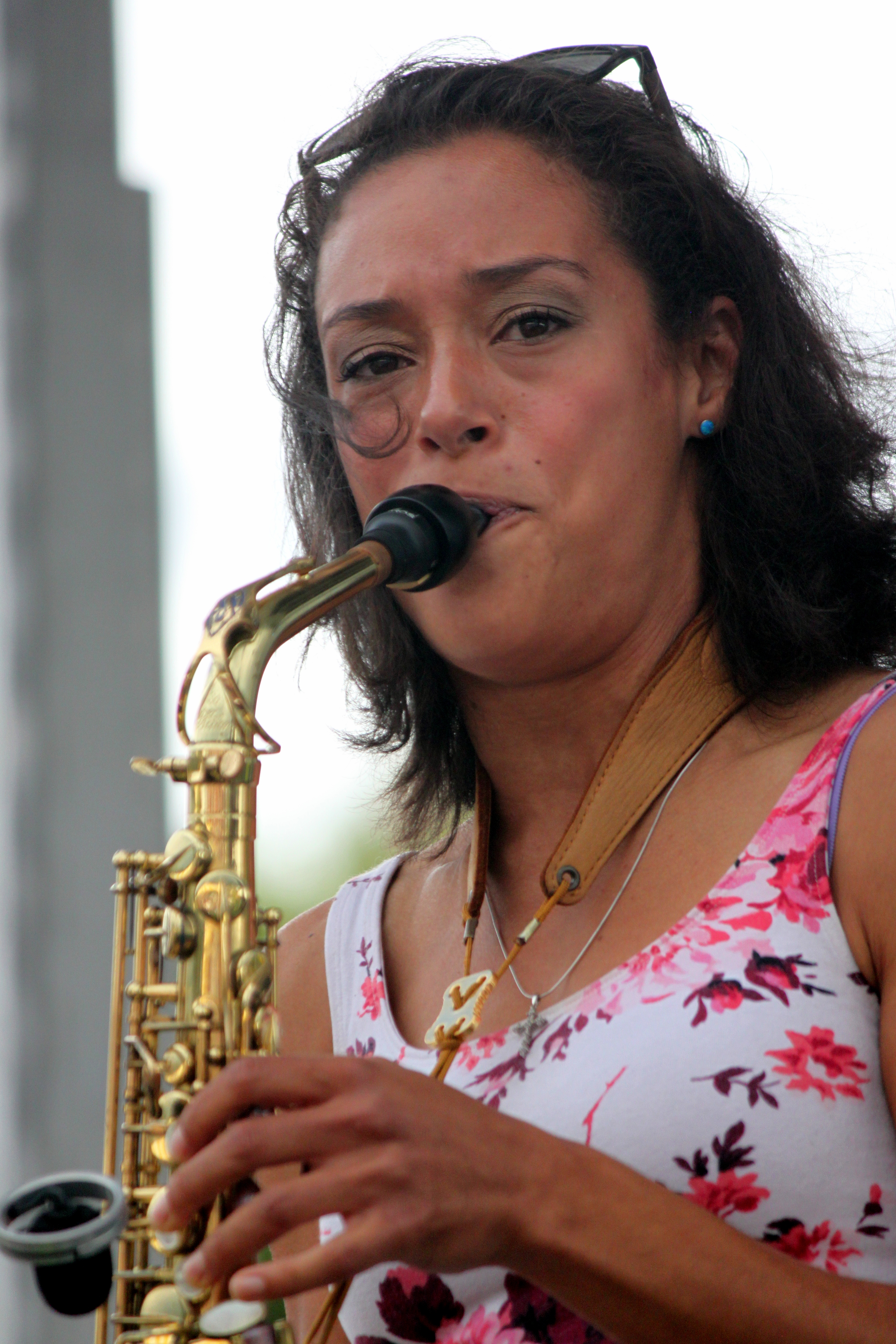 Vanessa playing at the 2018 Trinidaddio Blues Fest